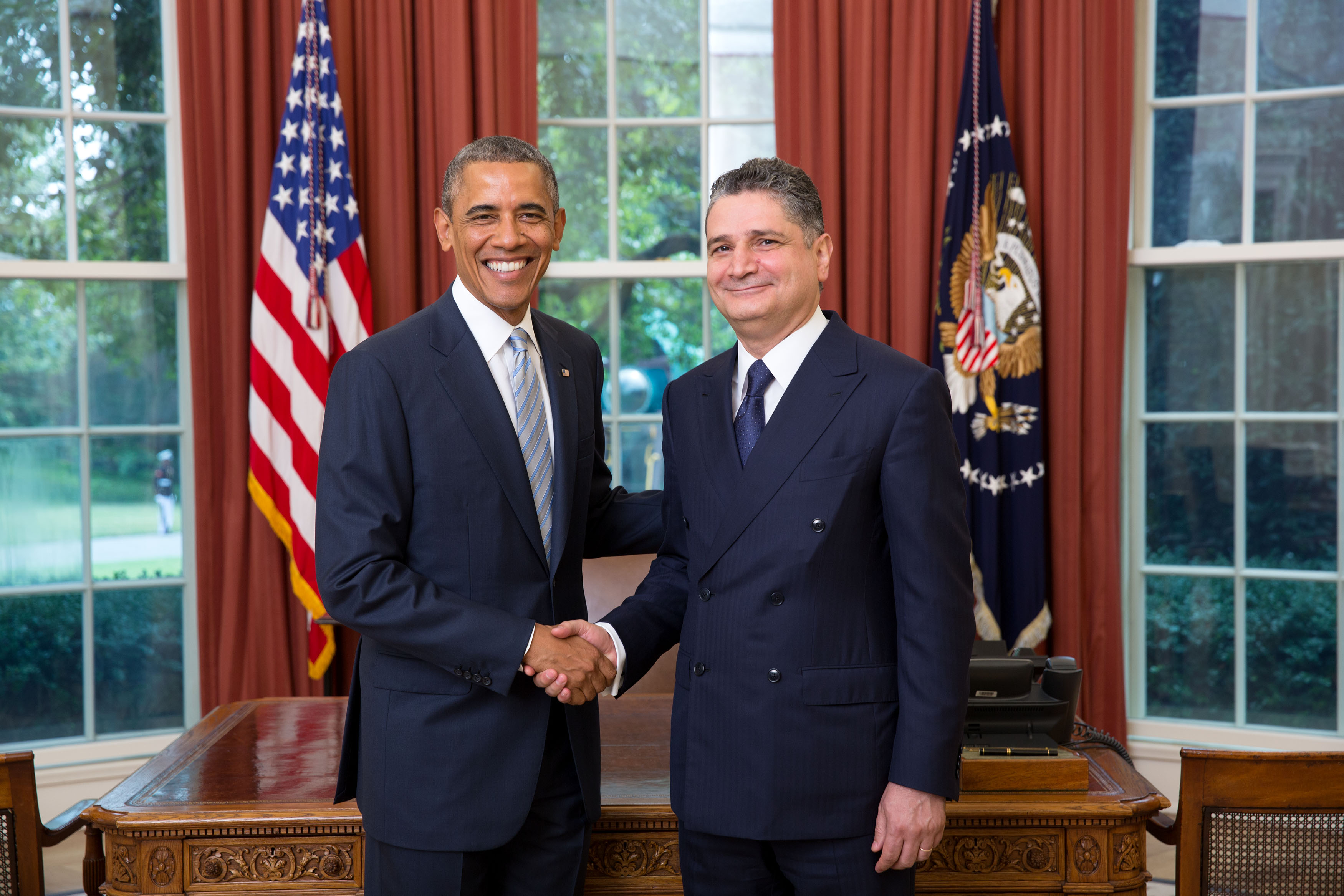 President Barack Obama participates in an Ambassador Credentialing Ceremony with Amb. Tigran Sargsyan, Ambassador of the Republic of Armenia, in the Oval Office, July 14, 2014. (Official White House Photo by Lawrence Jackson)